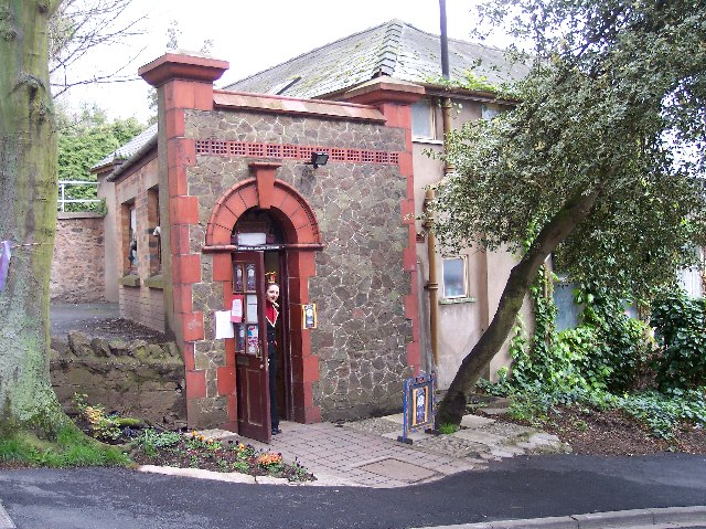 The Theatre of Small Convenience, the world's smallest theatre, located in Malvern, Worcestershire, England, converted from a Victorian public convenience